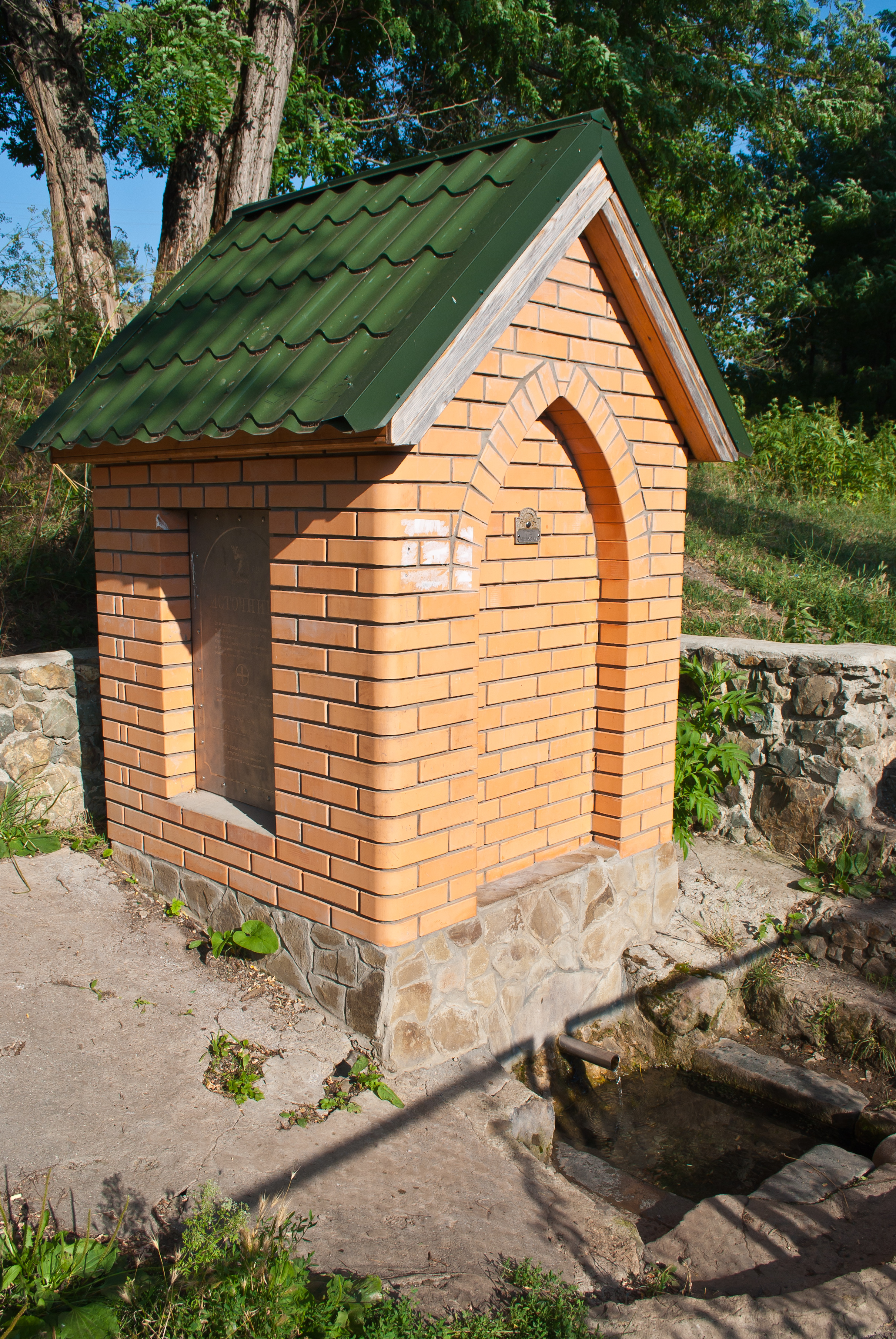 The spring of St. George in the village Klinivka (Simferopol district, Crimea, Ukraine).